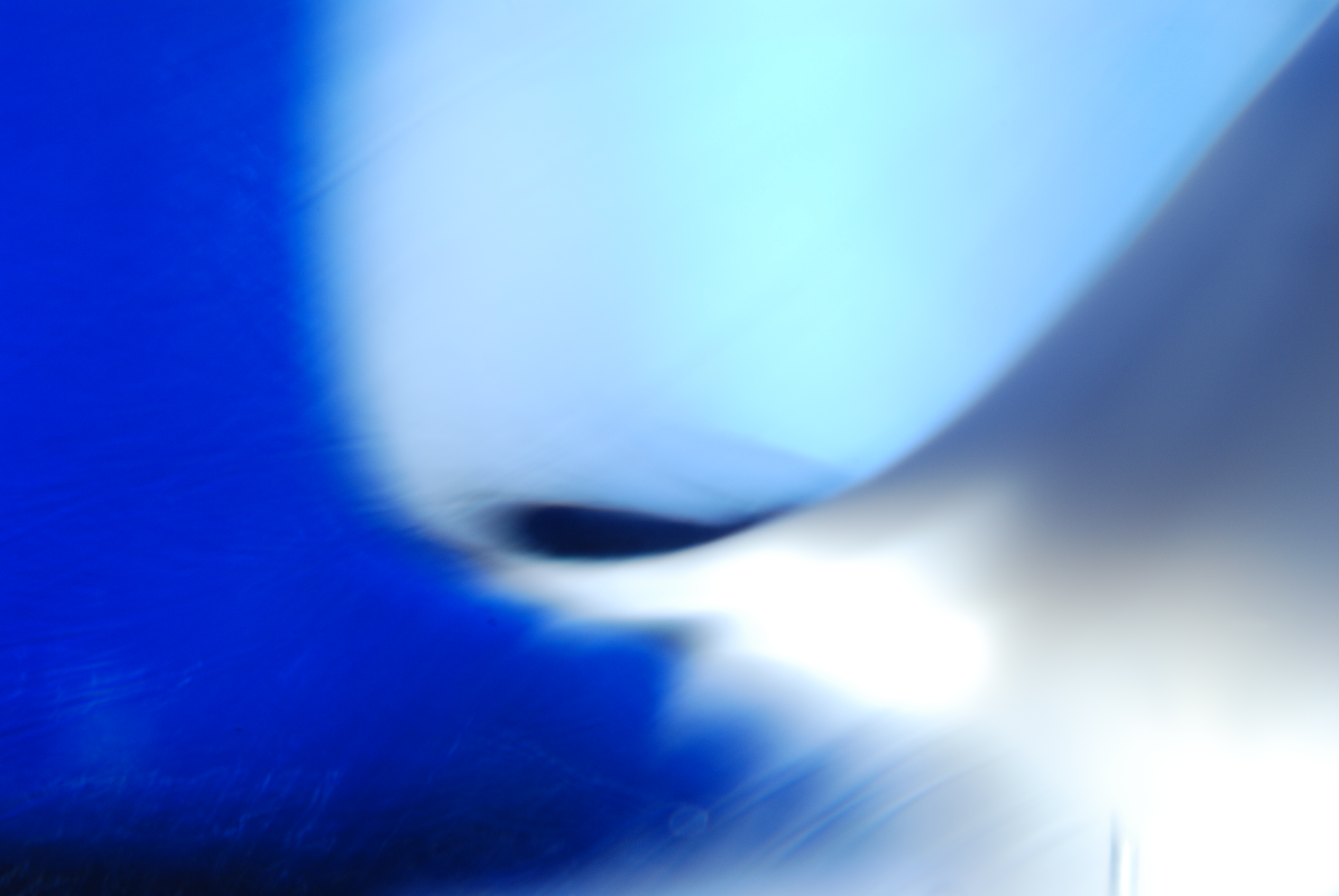 Small glass bead in close-up.